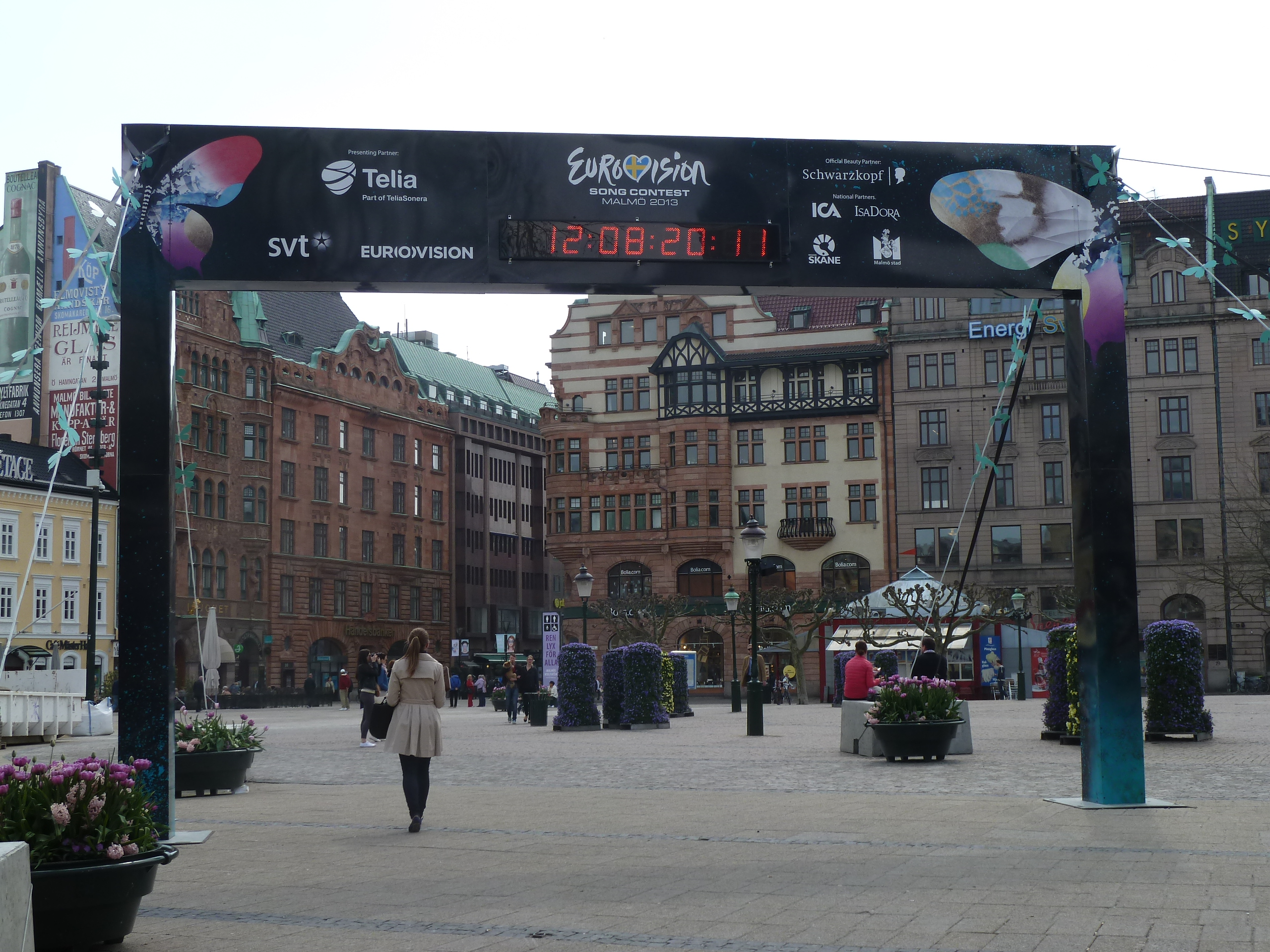 Countdown to the 2013 Eurovision on the main square (Stortorget) of Malmö, in Sweden.